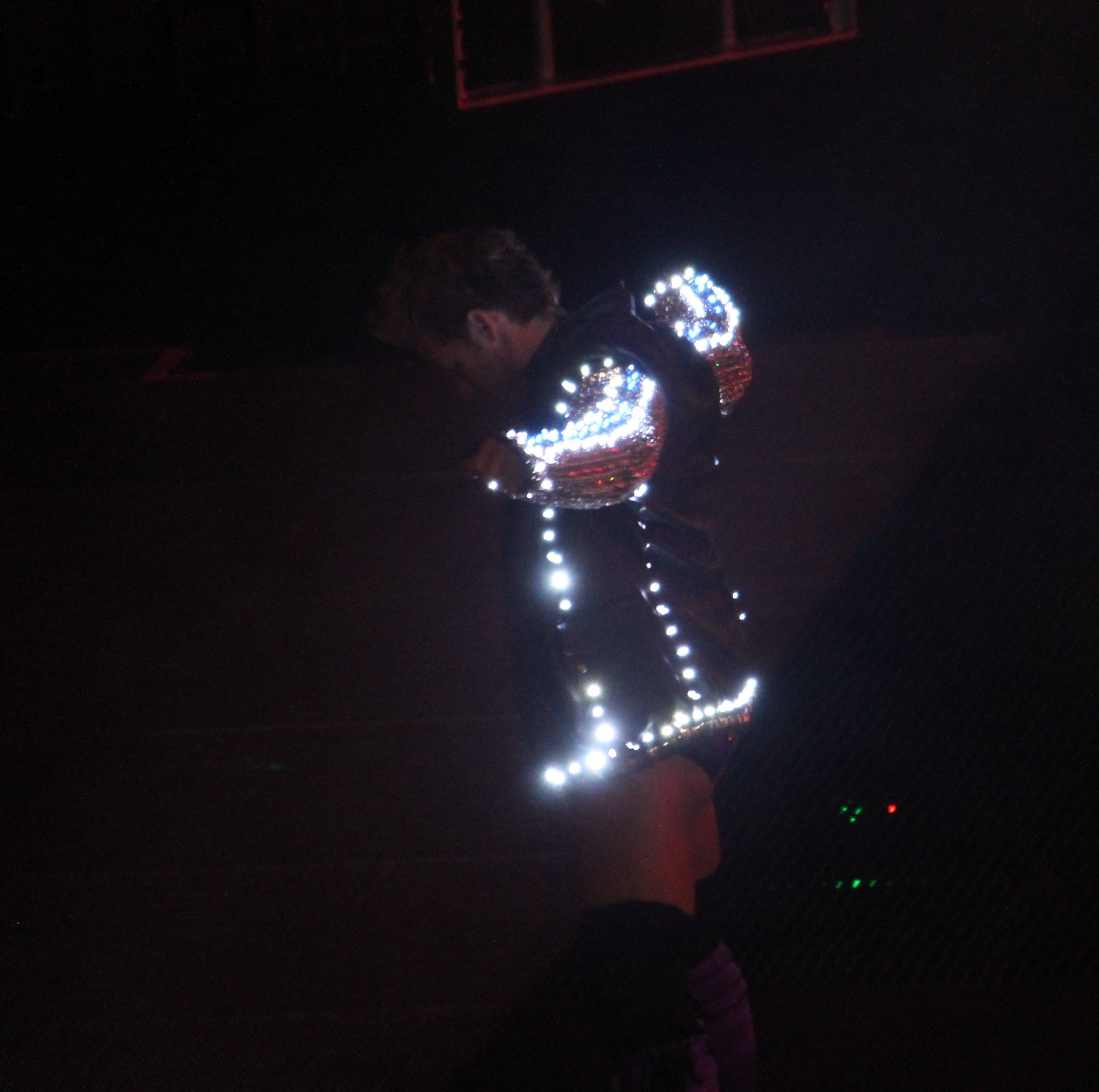 jericho new look